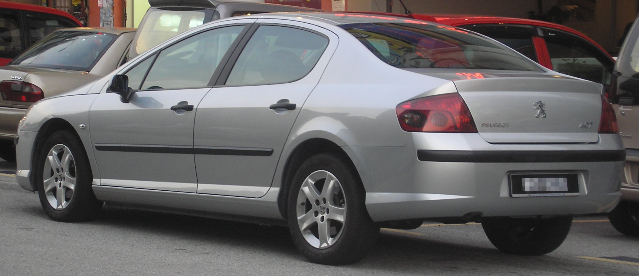 Rear quarter view of a first generation Peugeot 407, in Serdang, Selangor, Malaysia.